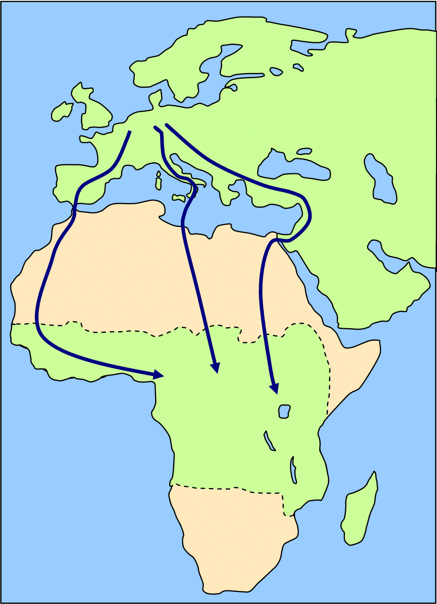 Simple representation of the bird migration of the breeding areas of Europe to the winter ranges of Central Africa.